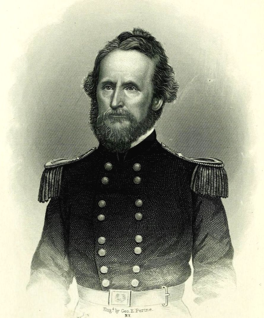 Engraving of Union General Nathaniel Lyon, by G.E. Pernine, taken from book: Britton, 1891, The Civil War on the border, Vol I